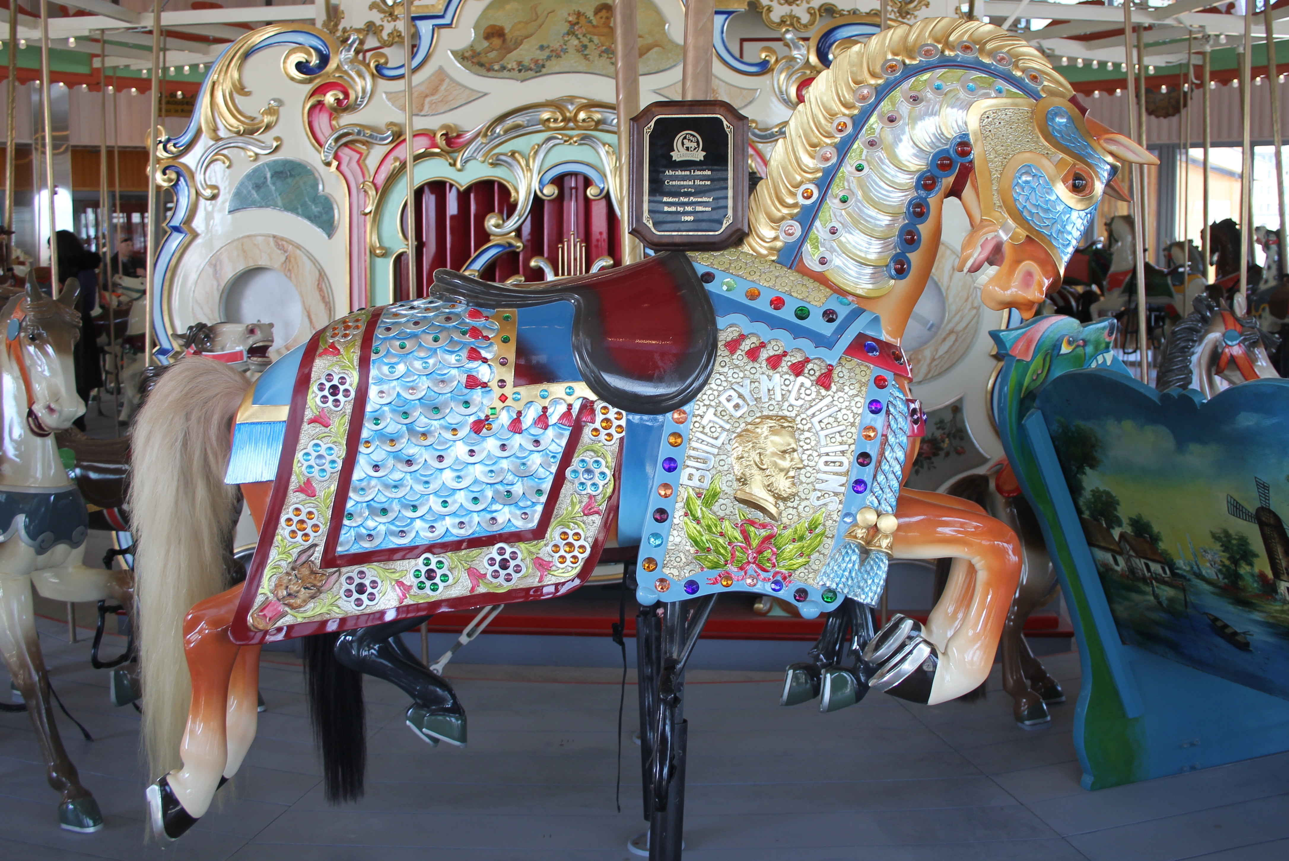 A 1909 horse by Marcus Illions, in the flamboyant Coney Island style. On the B&B Carousel, which has been housed on the Coney Island Boardwalk near the Parachute Jump since 2013.